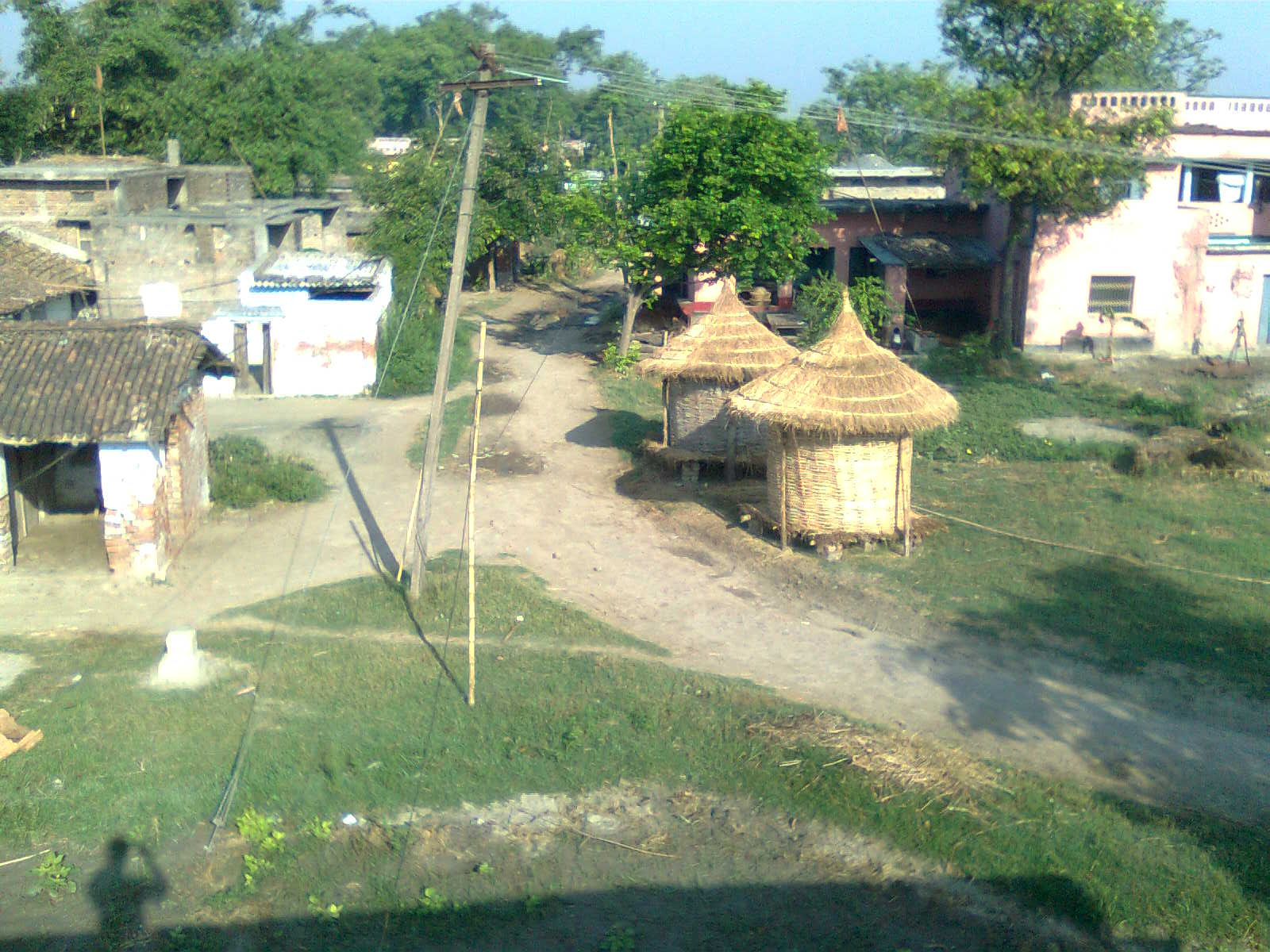 This is a village in the mashrakh block of saran distric in bihar state of india